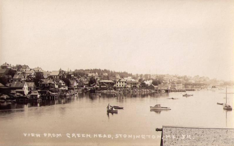 View from Green Head, Stonington, Maine